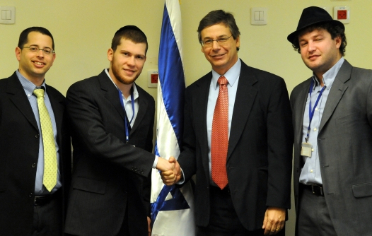 Major participants in opening of Dmitriy Salita Youth Center